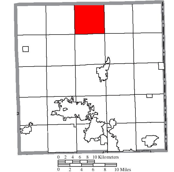 Map of the municipal and township boundaries of Trumbull County, Ohio, United States, as of the 2000 census, with the location of Greene Township highlighted. Township borders are shown only in unincorporated areas in order to differentiate incorporated and unincorporated areas more clearly.